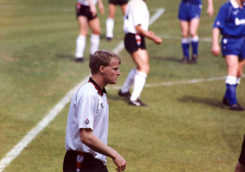 Simon Morgan (b. September 5, 1966, Birmingham) was a footballer most famously playing for Fulham and Leicester.